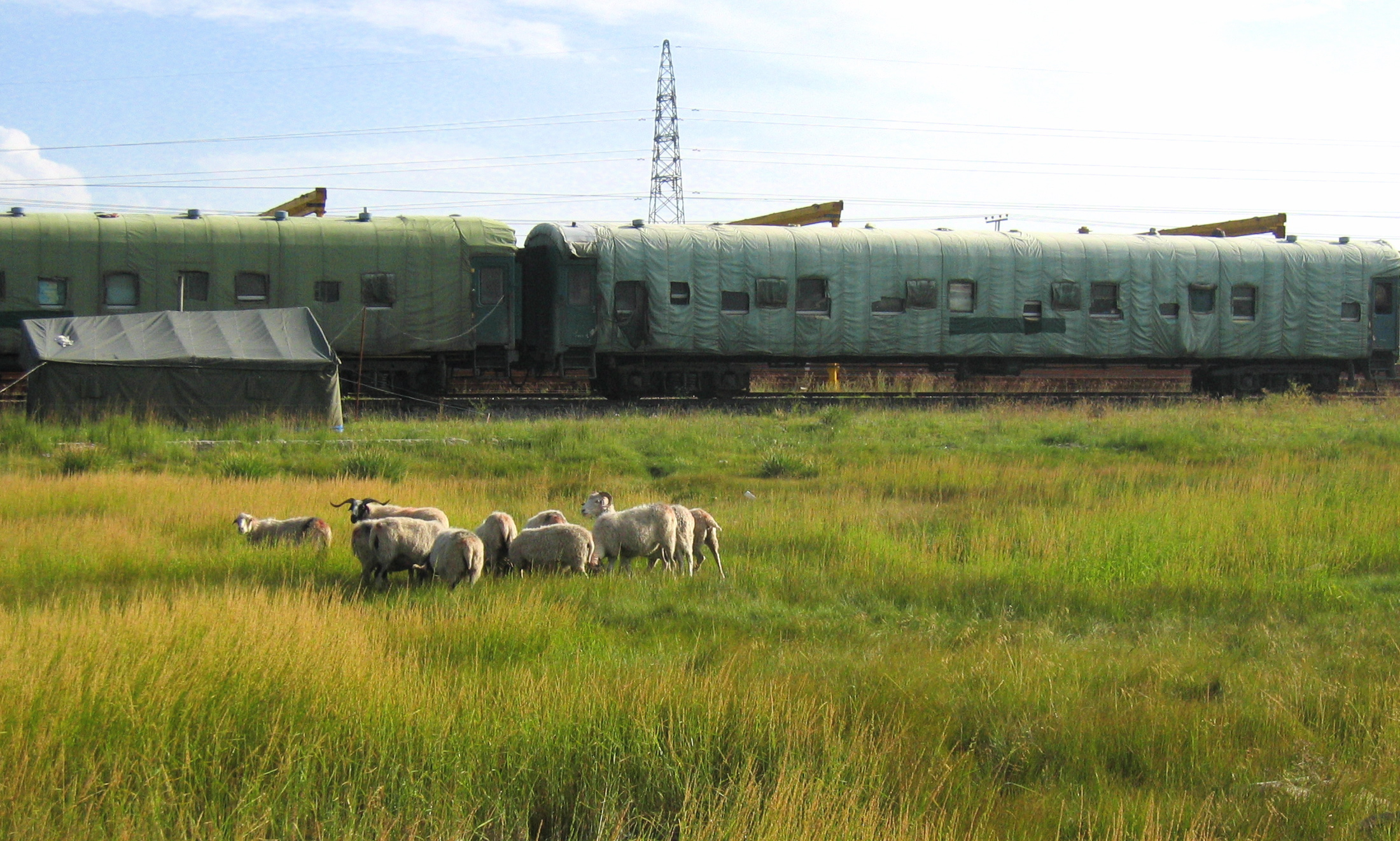 211 Factory, Qinghai, China.